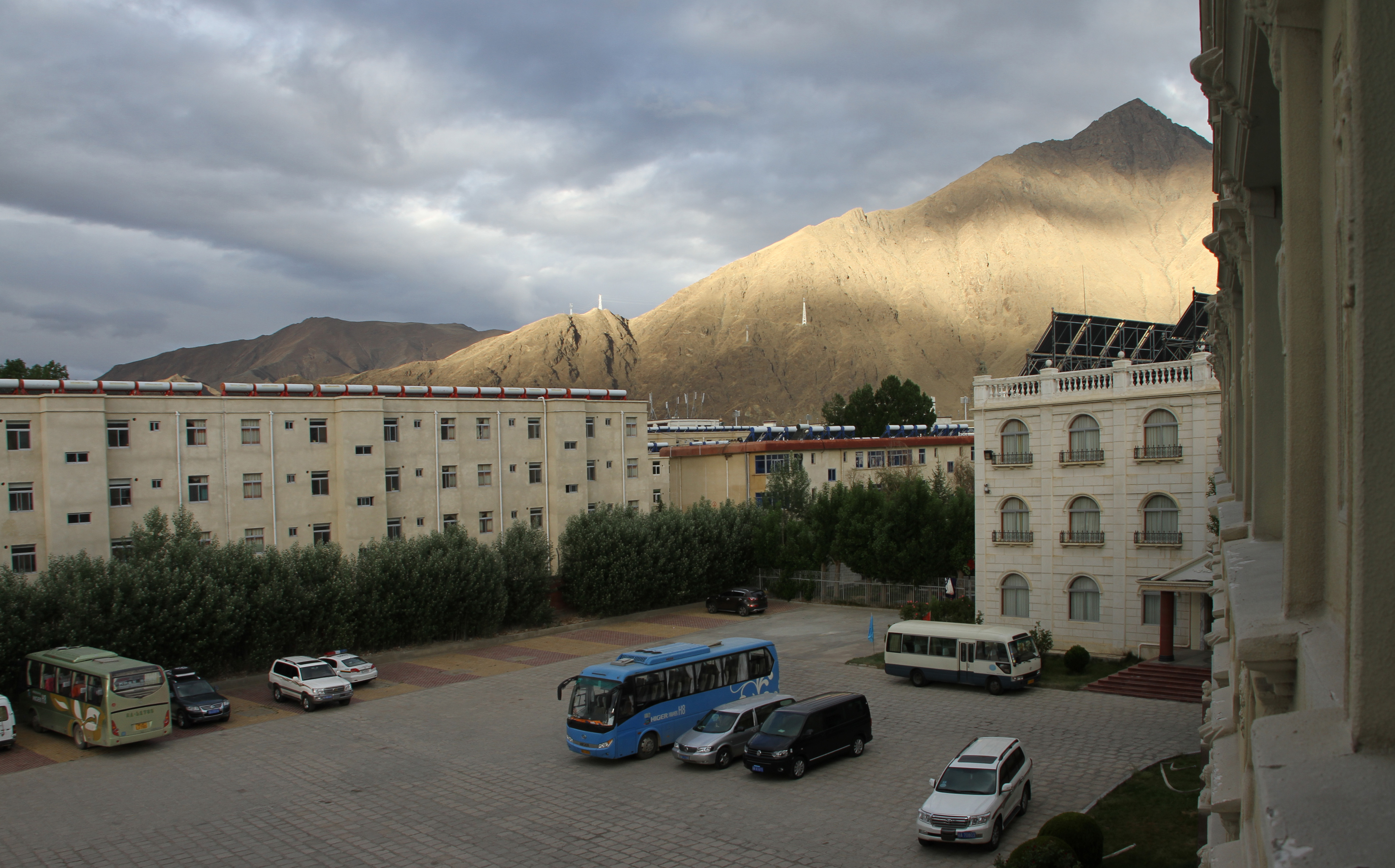 Tsetang, Nedong county, Shannon prefecture, in Tibet